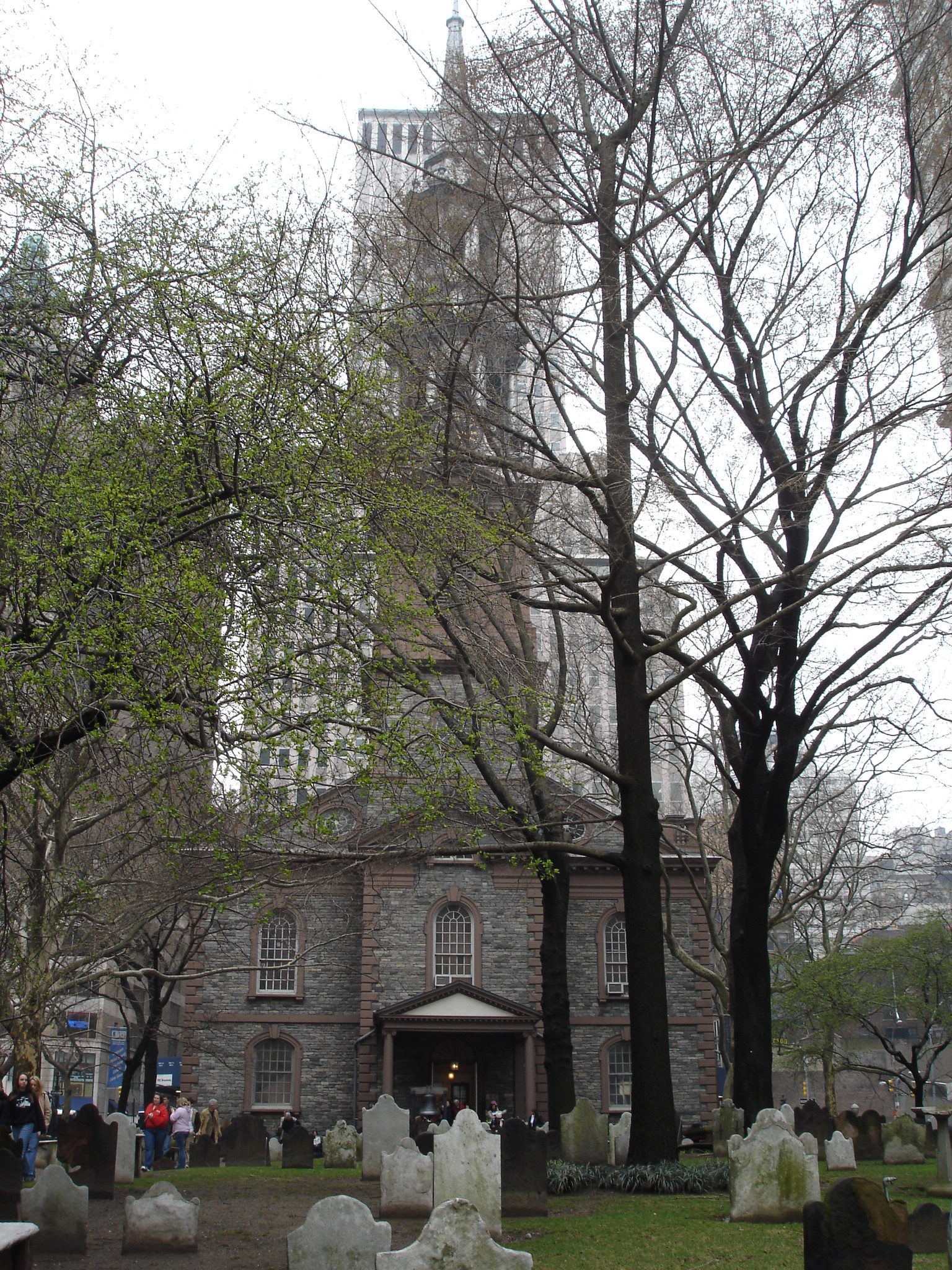 This photo is of Wikipedia Takes Manhattan location code 172, St. Paul's Chapel.